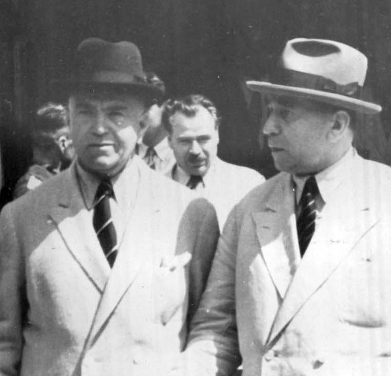 Romanian delegation visiting Bulgaria. Led by Dr Petru Groza (left), it also included Gh. Tatarescu (right), July 15-16th 1947.